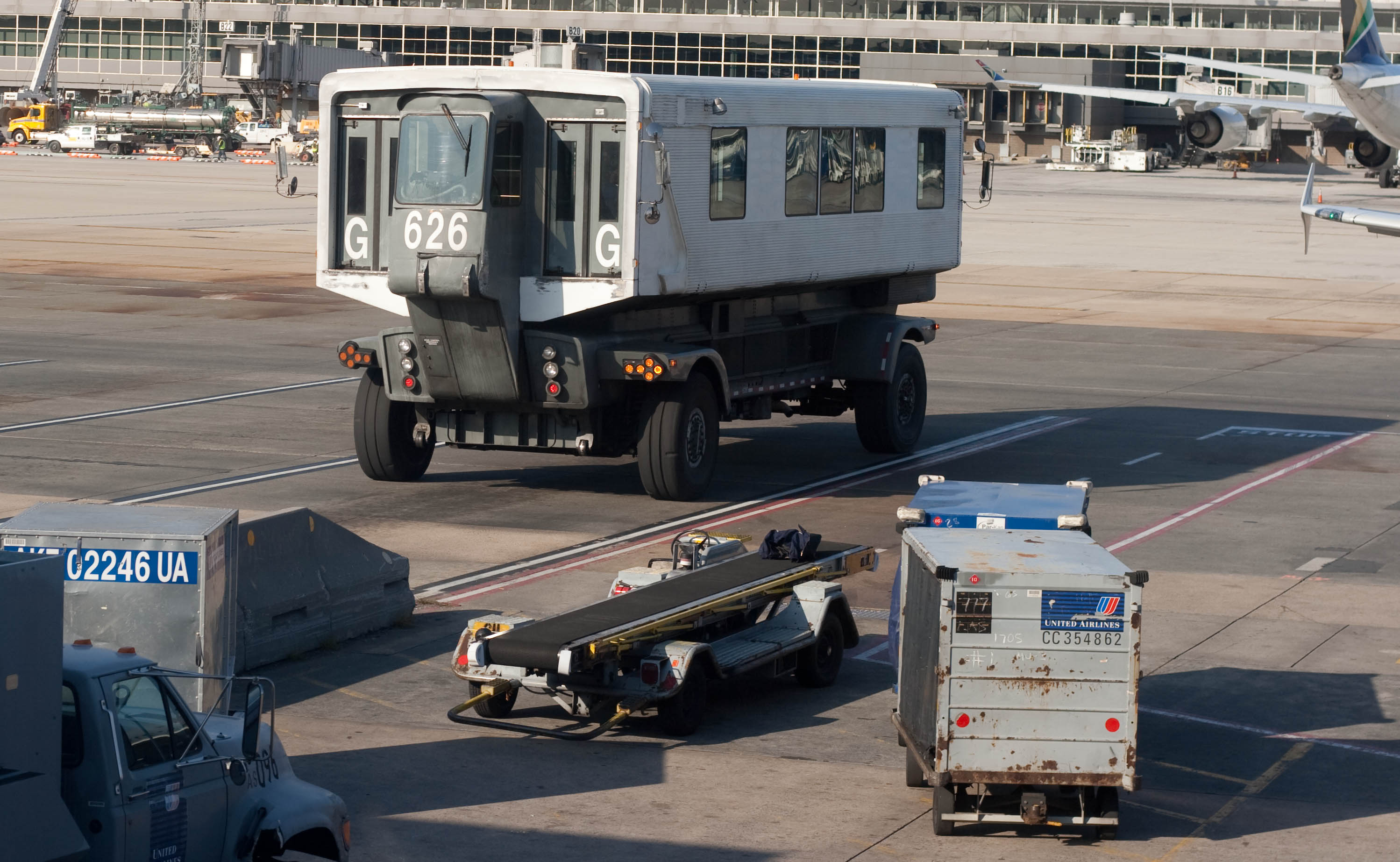 Dulles has been the backdrop for many Washington based movies, starting shortly after the airport opened with the 1964 film Seven Days in May. The 1983 comedy film D.C. Cab,starring Mr. T, Adam Baldwin and Gary Busey showed scenes outside of the main terminal at Dulles Airport. The action movie Die Hard 2: Die Harder is set primarily at Dulles airport. The plot of the film involves the takeover of the airport's tower and communication systems by terrorists, led by Colonel Stuart (William Sadler), who subsequently uses the equipment to prevent airliners from landing, demonstrating the consequences by fooling one jet into crashing onto a runway. It is up to former NYPD cop John McClane (Bruce Willis) who is currently with the LAPD, to stop them from downing more planes, one of which has his wife aboard. The film was not shot at Dulles; the stand-ins were Los Angeles International Airport (LAX) and the now-closed Stapleton International Airport in Denver. An often-noted inconsistency is the existence of Pacific Bell pay phones in the main terminal (the telephone company that served Dulles at the time was GTE and the nearest PacBell territory was thousands of miles away). Portions of all three sequels to the disaster film Airport were filmed at Dulles: Airport 1975, with Charlton Heston, Karen Black and George Kennedy; Airport '77, with Jack Lemmon, Christopher Lee and George Kennedy; and The Concorde: Airport '79. Dulles has also served as a stand-in for a New York City airport, in the 1999 comedy, Forces of Nature. While set in a New York airport, the main terminal is recognizable. Dulles is featured in several episodes the television series The X-Files.[29]